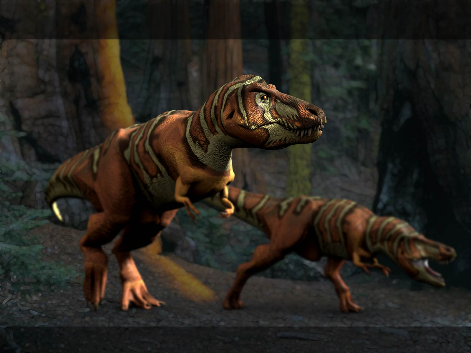 Tyrannosaurus Rex pair hunting